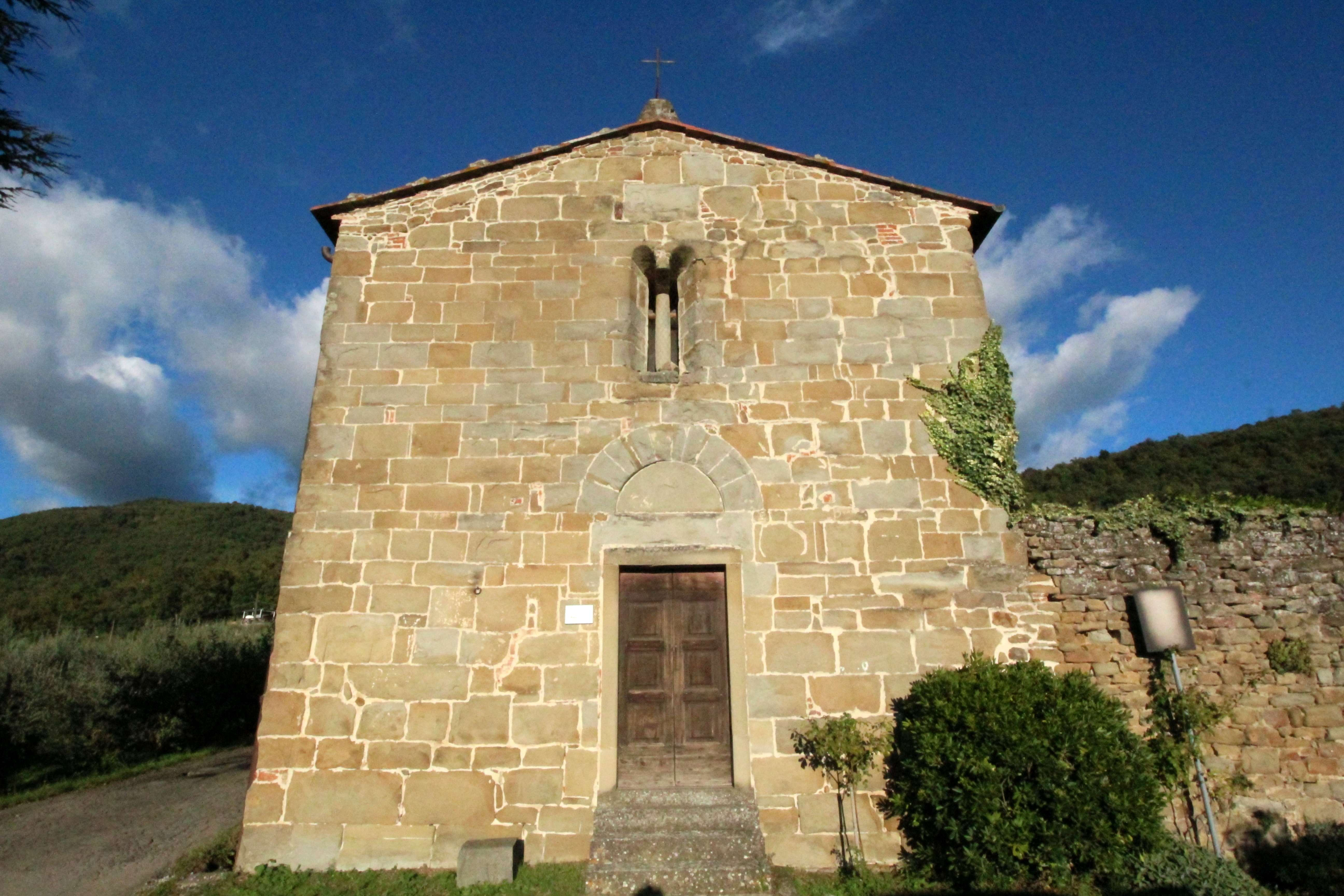 Churchand Abbey Badia di Sant’Andrea a Mama, just outside of Loro Ciuffenna, Province of Arezzo, Tuscany, Italy